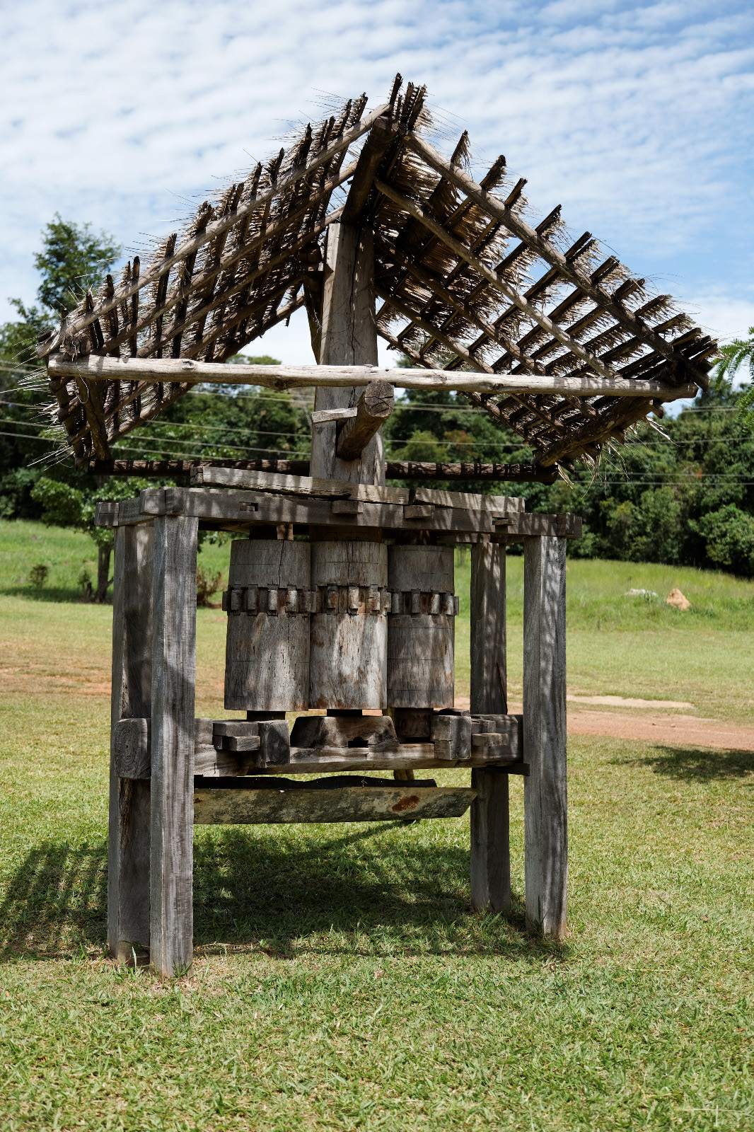 An old sugarcane press made of wood in display near Pirenópolis in the Brazilian State of Goiás.